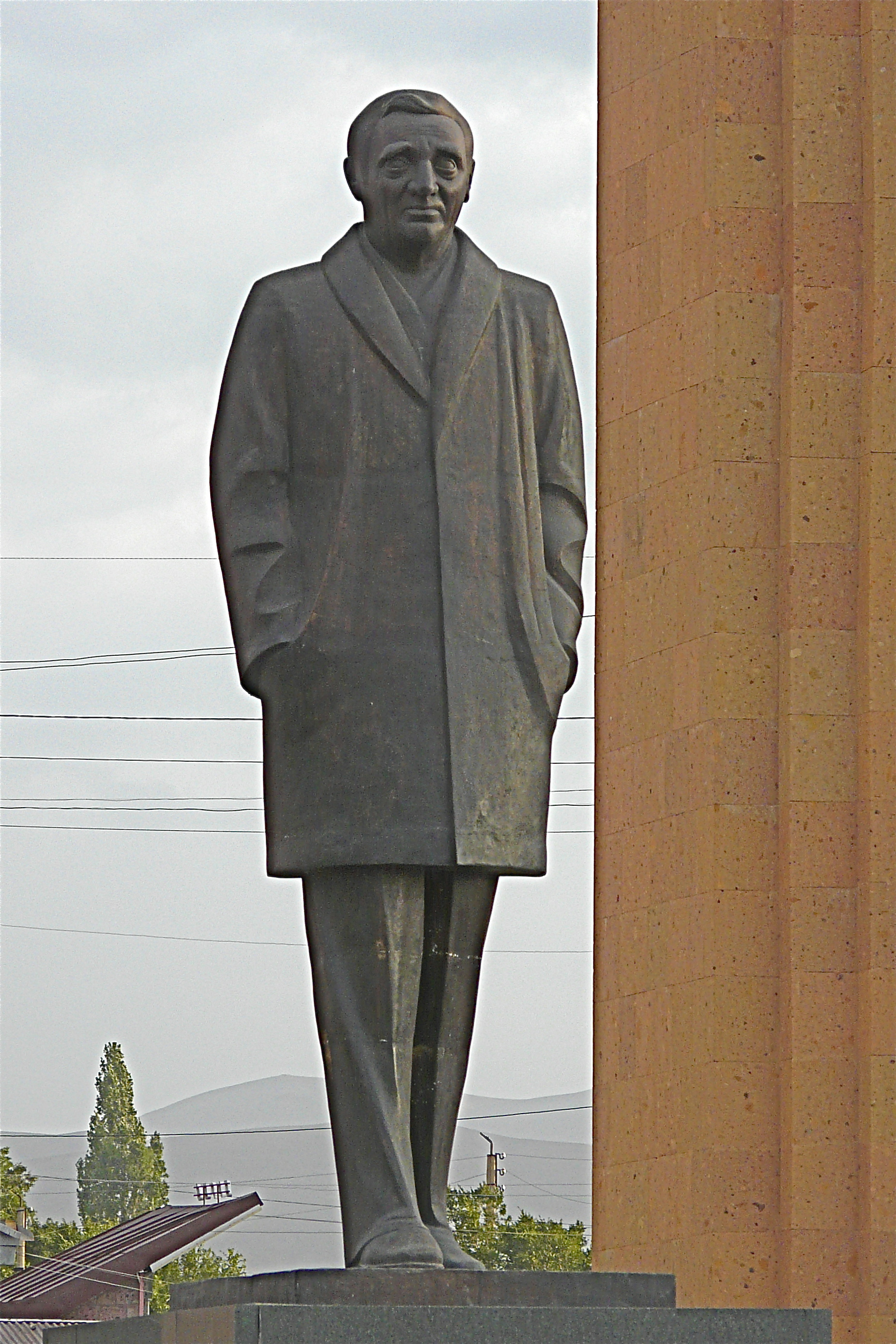 Aznavour's statue in Gyumri